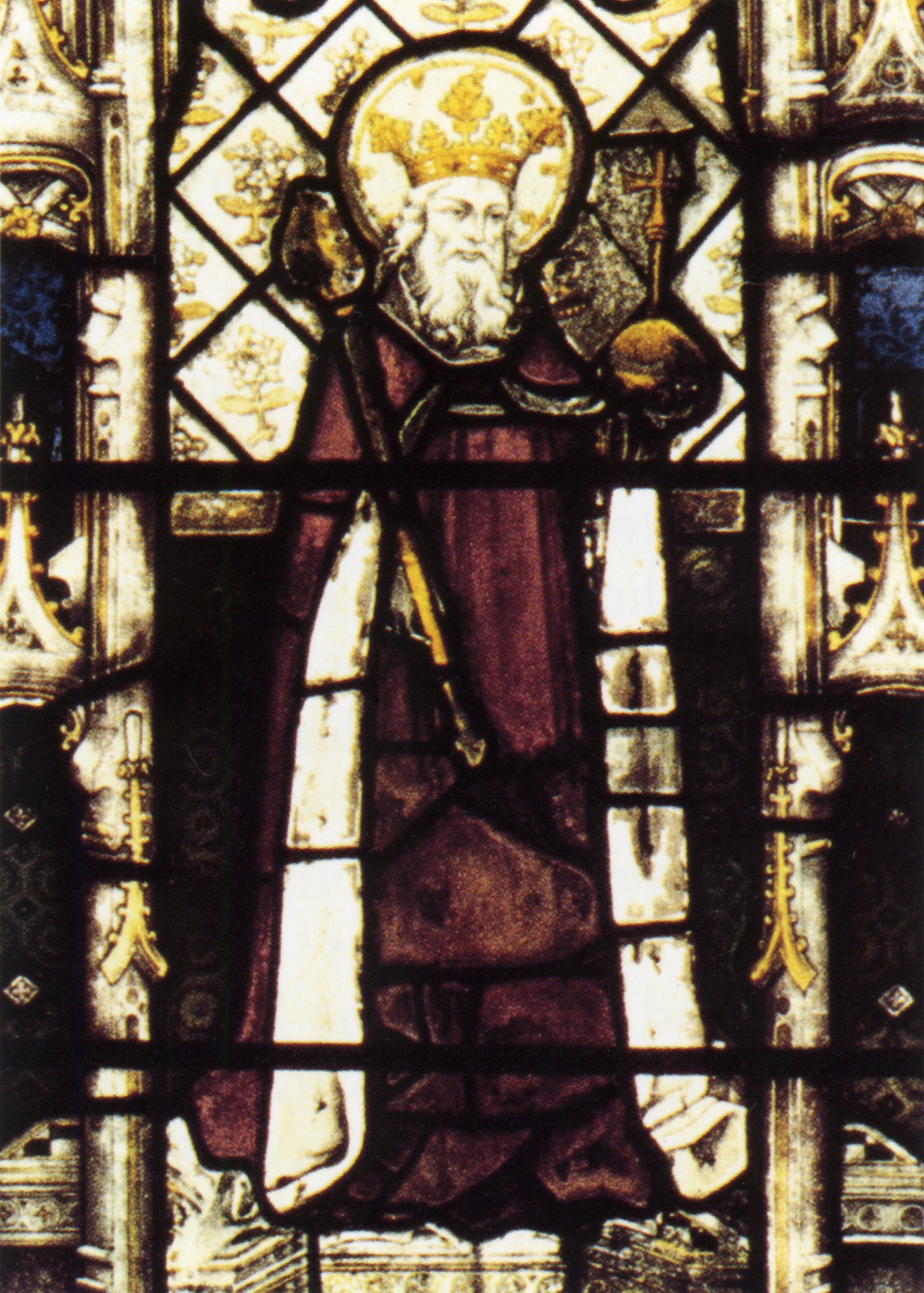 This image is a JPEG version of the original PNG image at File: Ethelbert, King of Kent from All Souls College Chapel.png. Generally, this JPEG version should be used when displaying the file from Commons, in order to reduce the file size of thumbnail images. However, any edits to the image should be based on the original PNG version in order to prevent generation loss, and both versions should be updated. Do not make edits based on this version. See here for more information. Ethelbert, d.616. Stained glass window, All Souls College Chapel, Oxford. Originally obtained from Warden and Fellows of All Souls, Oxford. According to [1], "The large stained glass window [containing this image] in the west wall is known as the Royal Window. Dating from the mid-15th-century but much restored, it was originally located in the Old Library of All Souls."